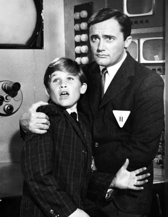 Photo of young Kurt Russell and Robert Vaughn from the television program The Man From U.N.C.L.E..